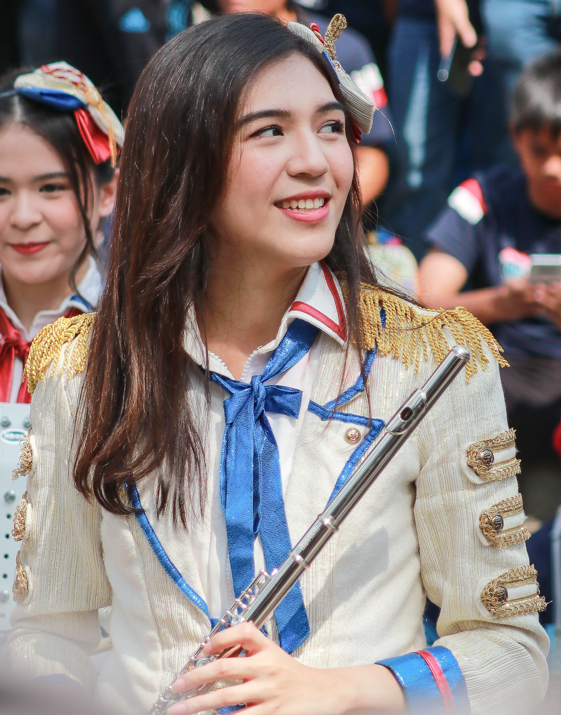 Gabriela Margaret Warouw on 17 November 2019